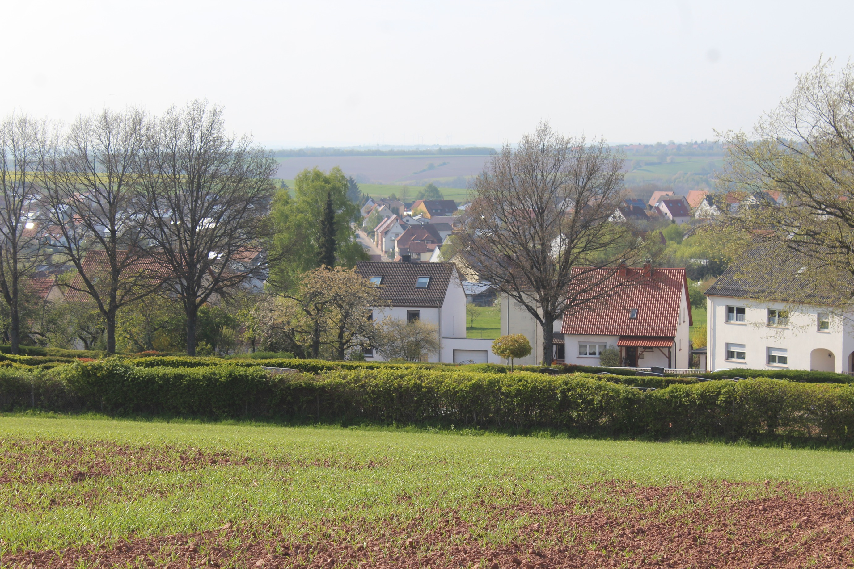 Donsieders, the village